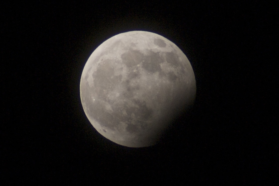 December 2009 Partial Lunar Eclipse from Sheffield, UK